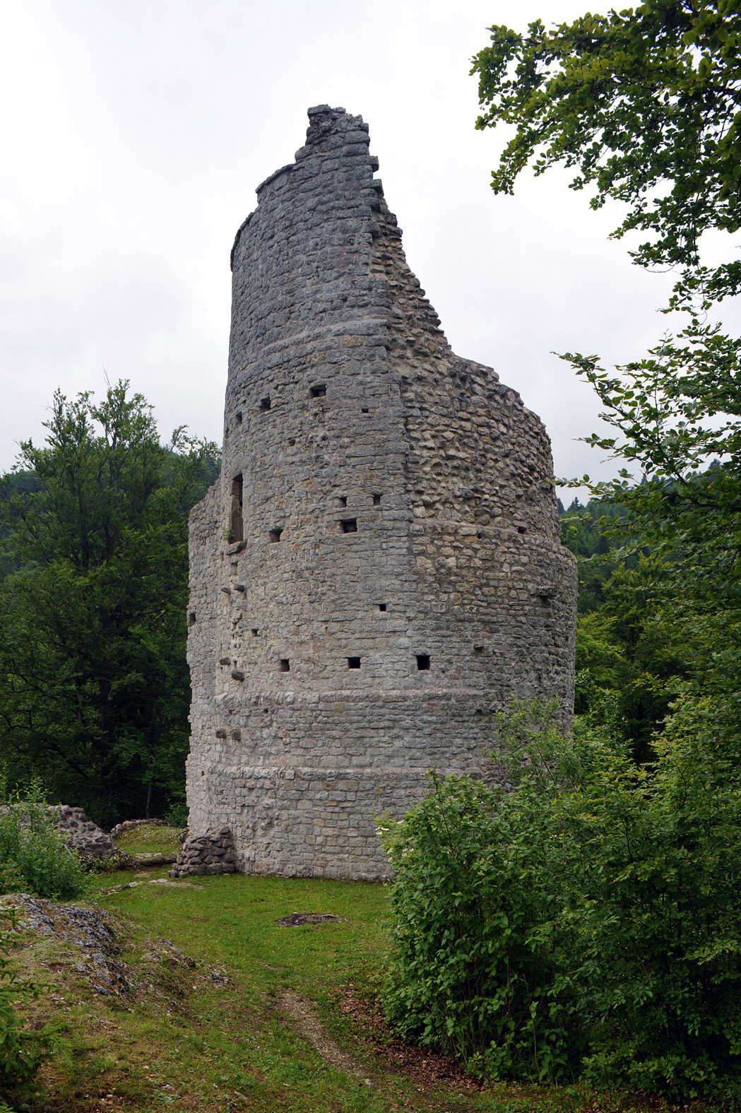 Vue to the ruins of the Château d'Erguël; Berne, Switzerland.